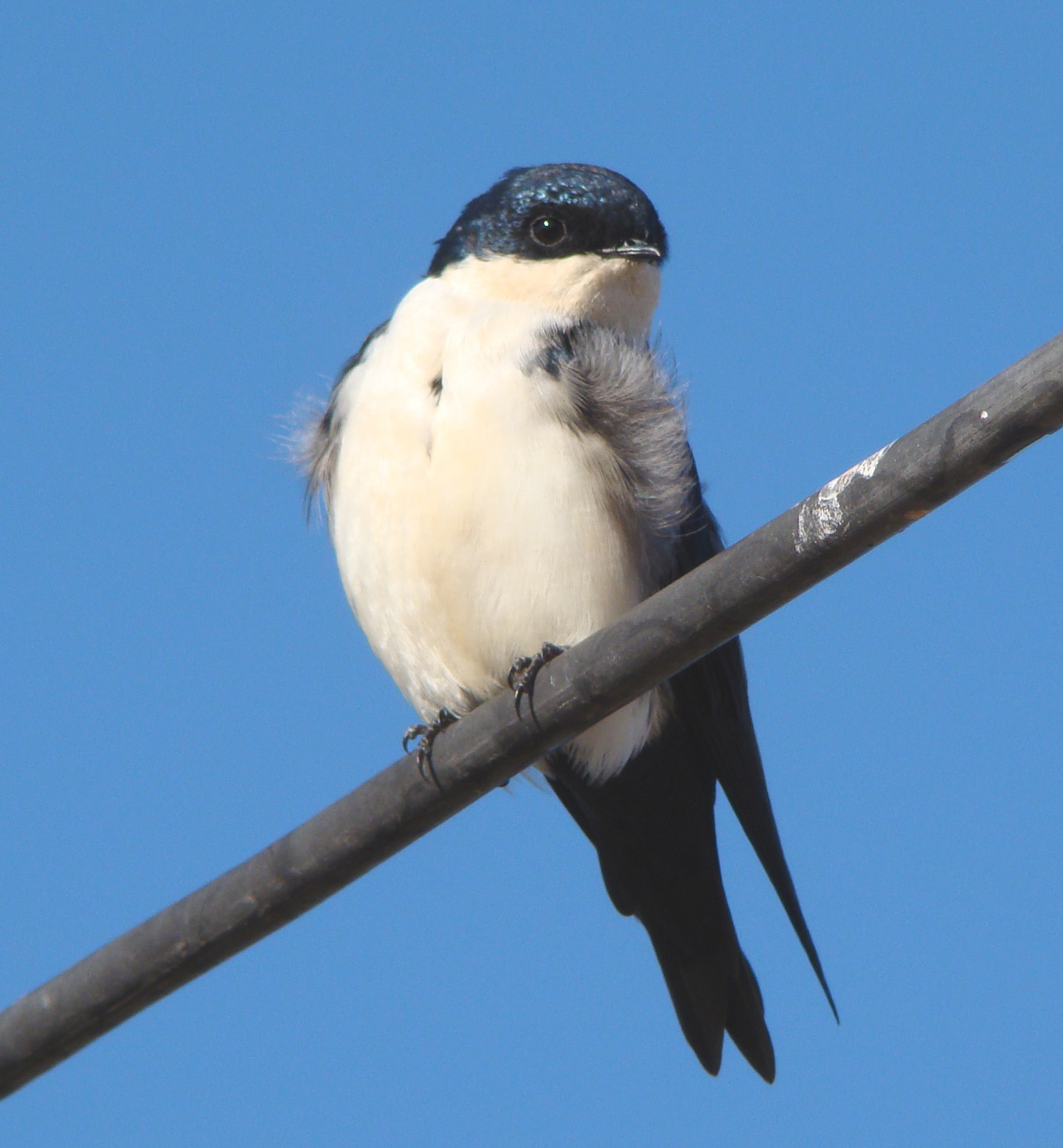 Pygochelidon cyanoleuca (syn. Notiochelidon cyanoleuca) photographed in Pelotas, Rio Grande do Sul, Brazil, in May 2009.